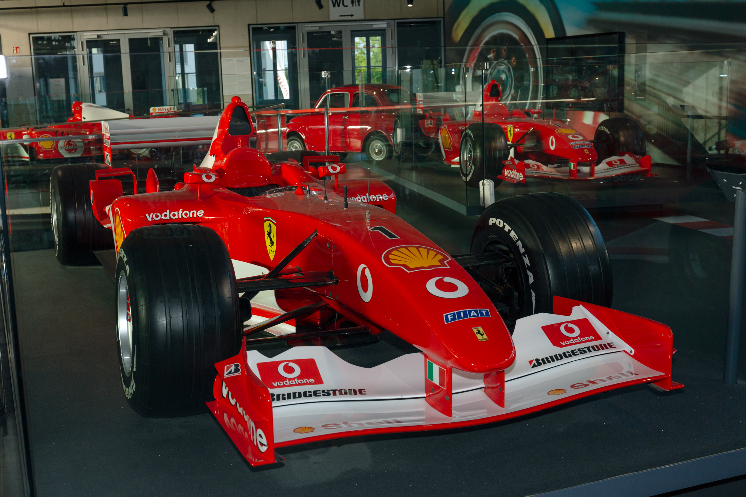 Michael Schumacher Private Collection: Interior